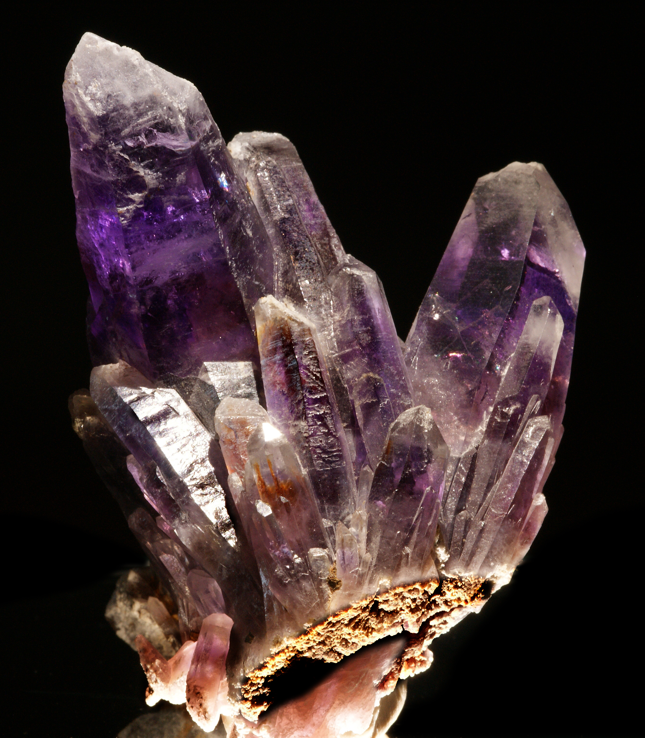 Amethyst - Amatitlán, Mun. de Zumpango del Rio, Guerrero Mexico - (12x12cm)